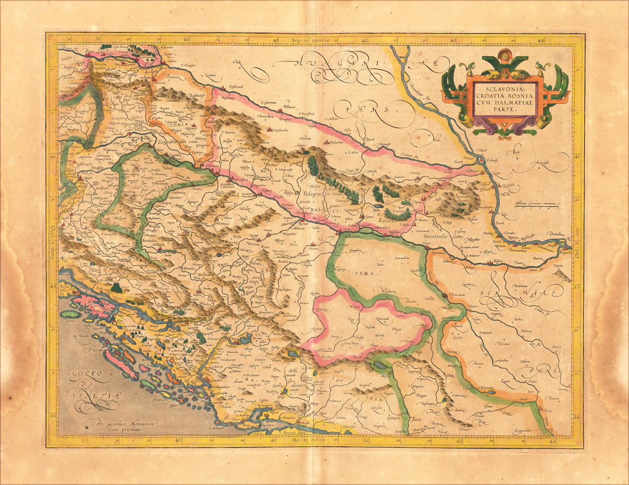 Map of Slavonia, Croatia, Bosnia and a part of Dalmatia. Made by G. Mercator and published in 1609 in Amsterdam.